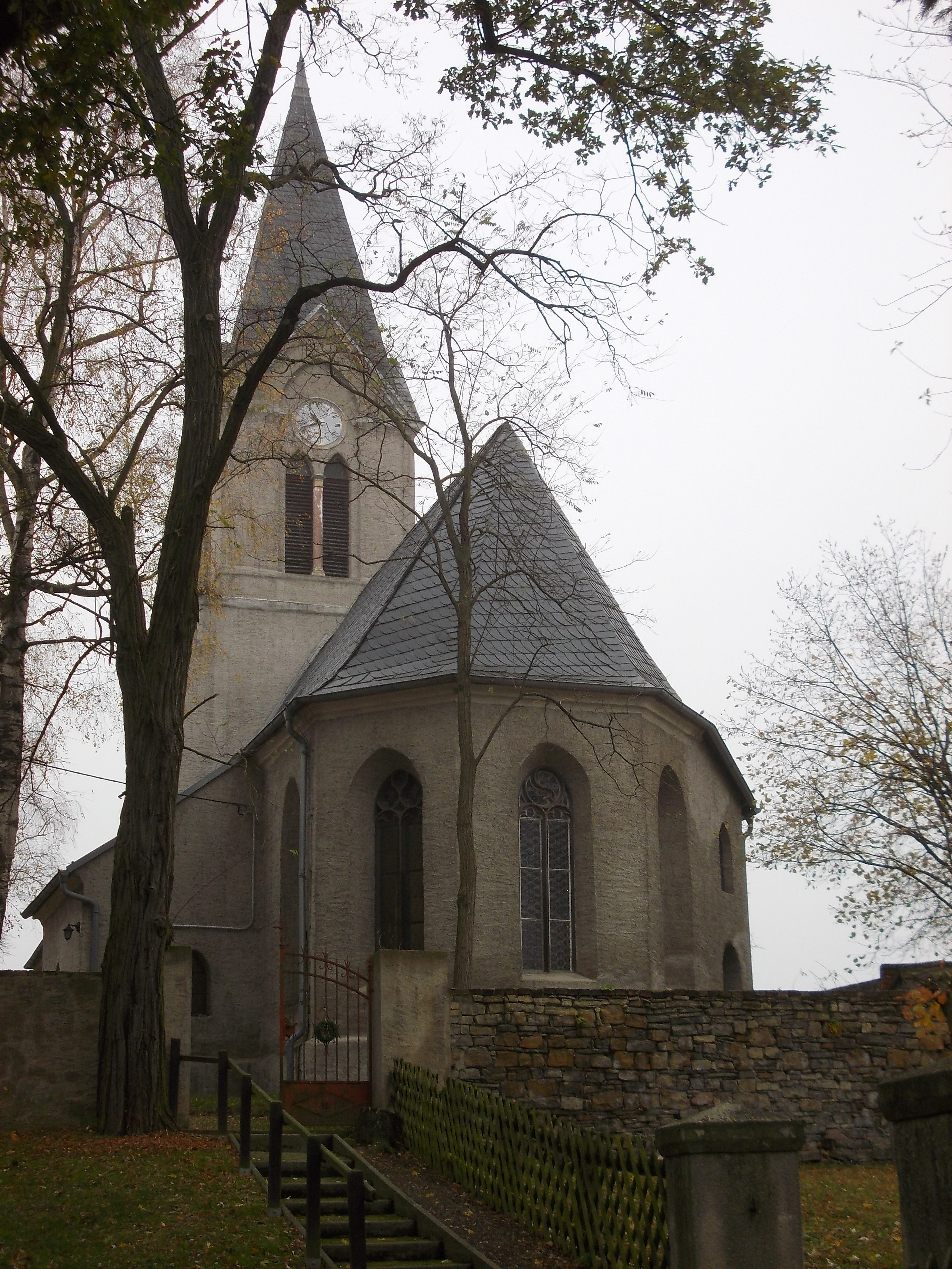 St. Nicholas' Church in Zürchau (Nobitz, Altenburger Land district, Thuringia)